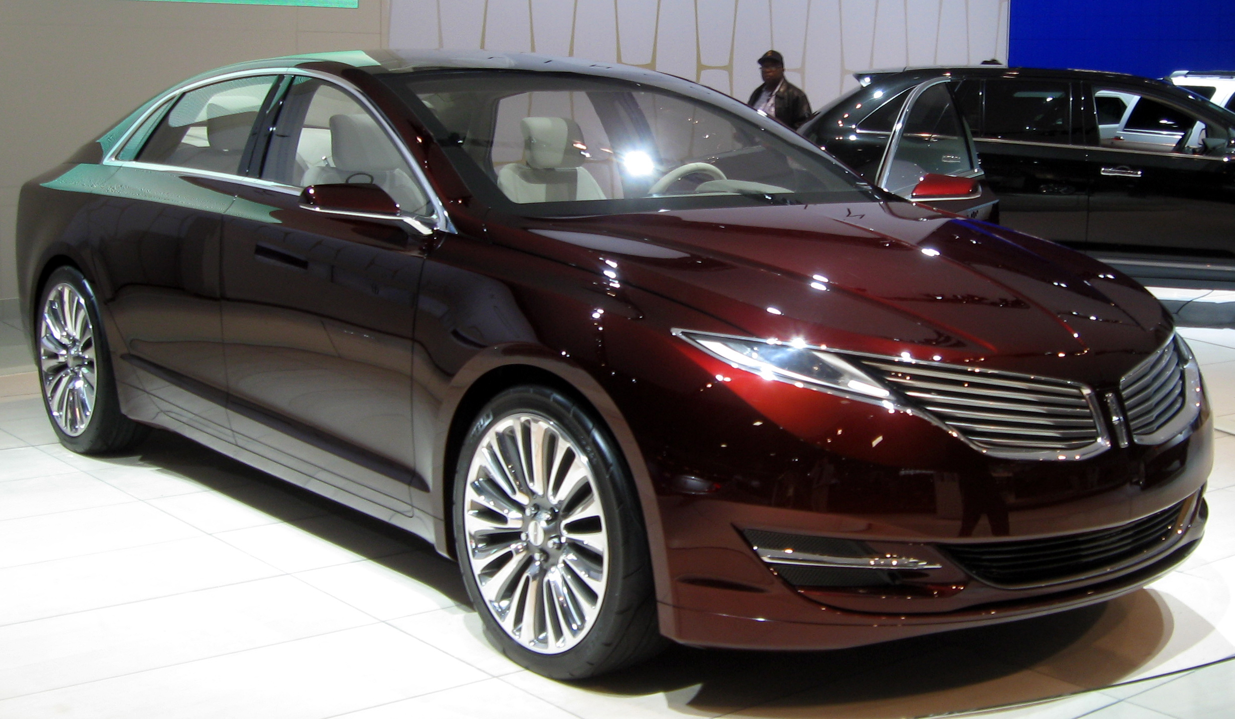 2013 Lincoln MKZ concept photographed in Washington, D.C., USA.